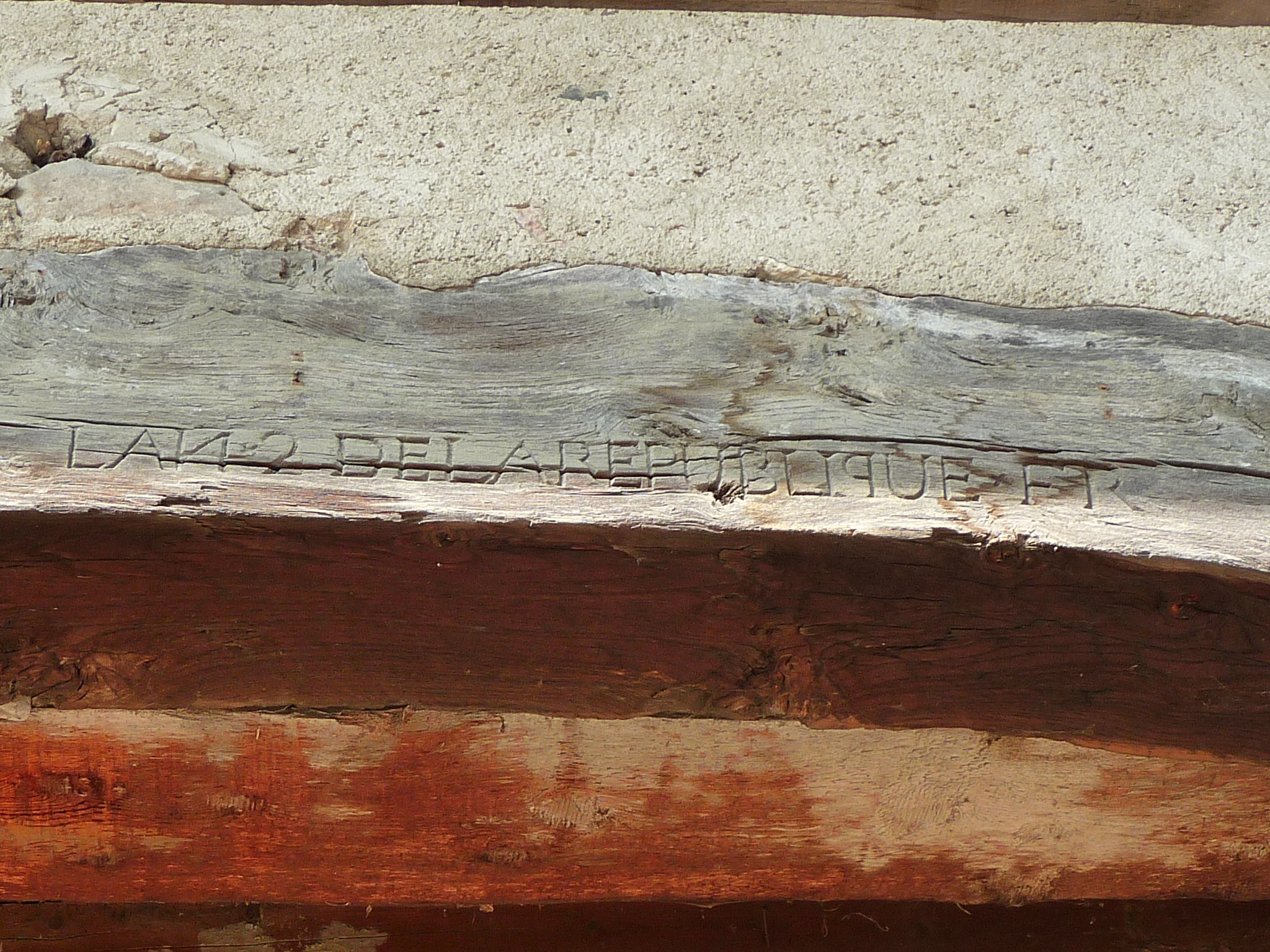 A French republican calendar date inscribed over the entrance to a barn in France (Mury), near Geneva. Inscription reads: L AN 2 DE LA REPUBLIQUE FR. (Year 2 of the French Republic). 1793 or 1794.